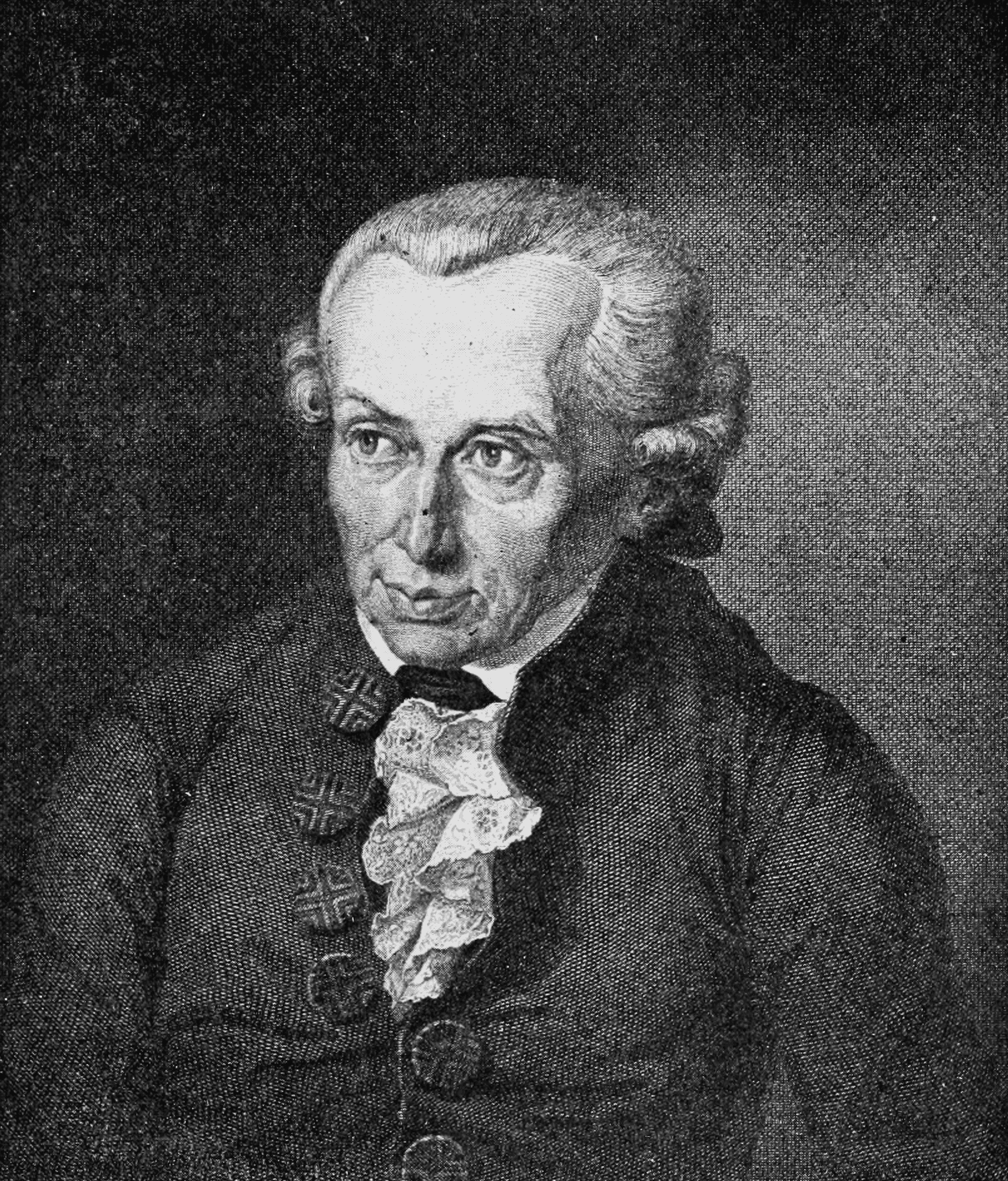 Emmanuel Kant